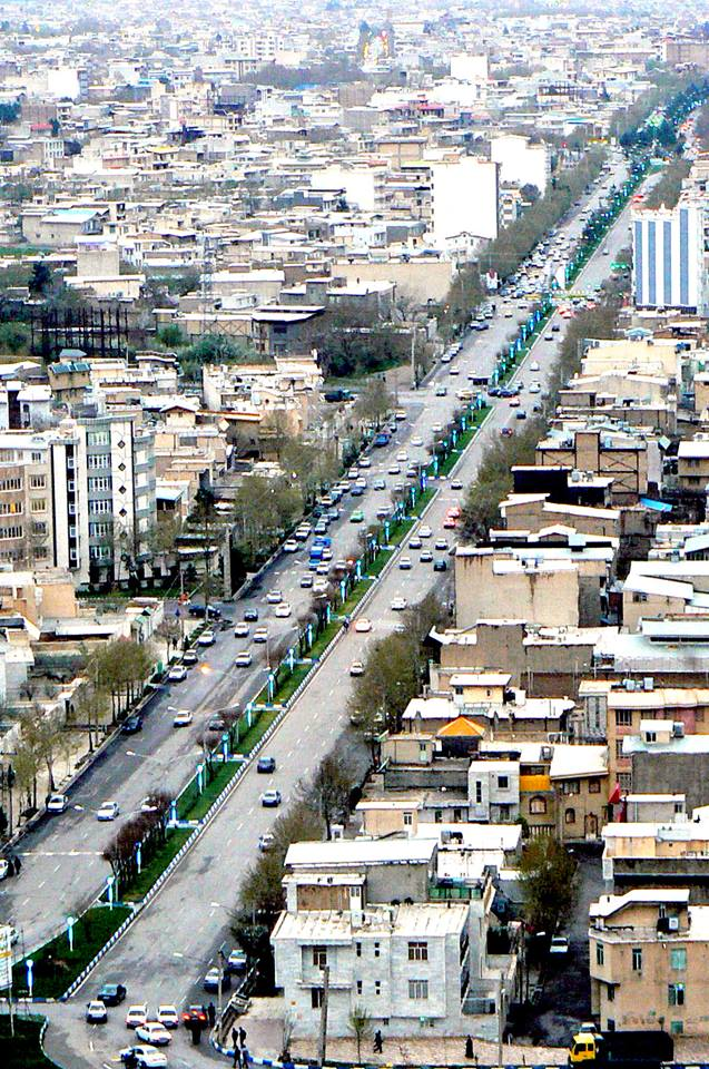 Takhti Blvd of Borujerd